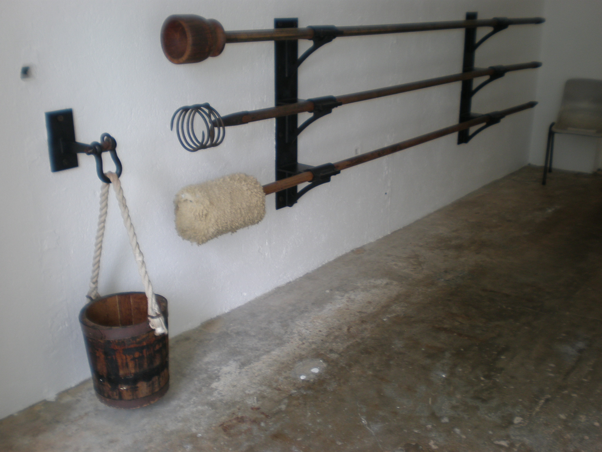 A rammer, sponge, and bucket stored in the underground magazine for gun no. 1 of Lei Yue Mun Fort's Central Battery, a 64 pounder RML (rifled muzzle loading) gun. See Image:Central Battery 64 pound RML gun no. 1 right rear side HKMCD.JPG. The fort now forms a large part of the Hong Kong Museum of Coastal Defence.